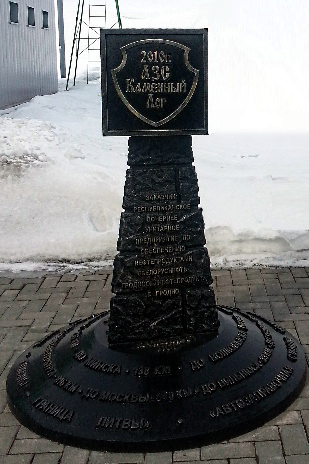 The memorial sign at a gas station in the village of Kamenny log near the border with Lithuania